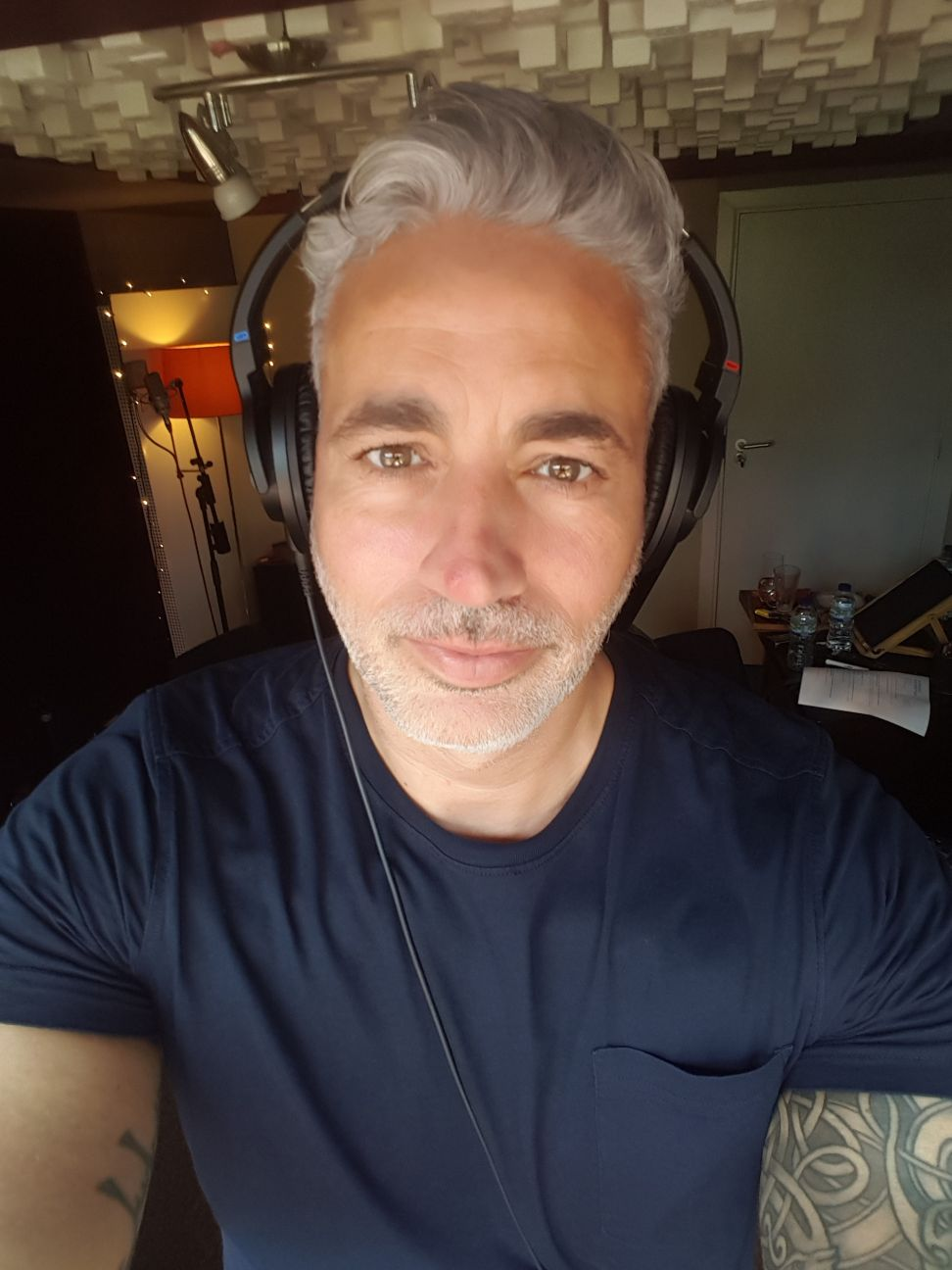 Baz Ashmawy